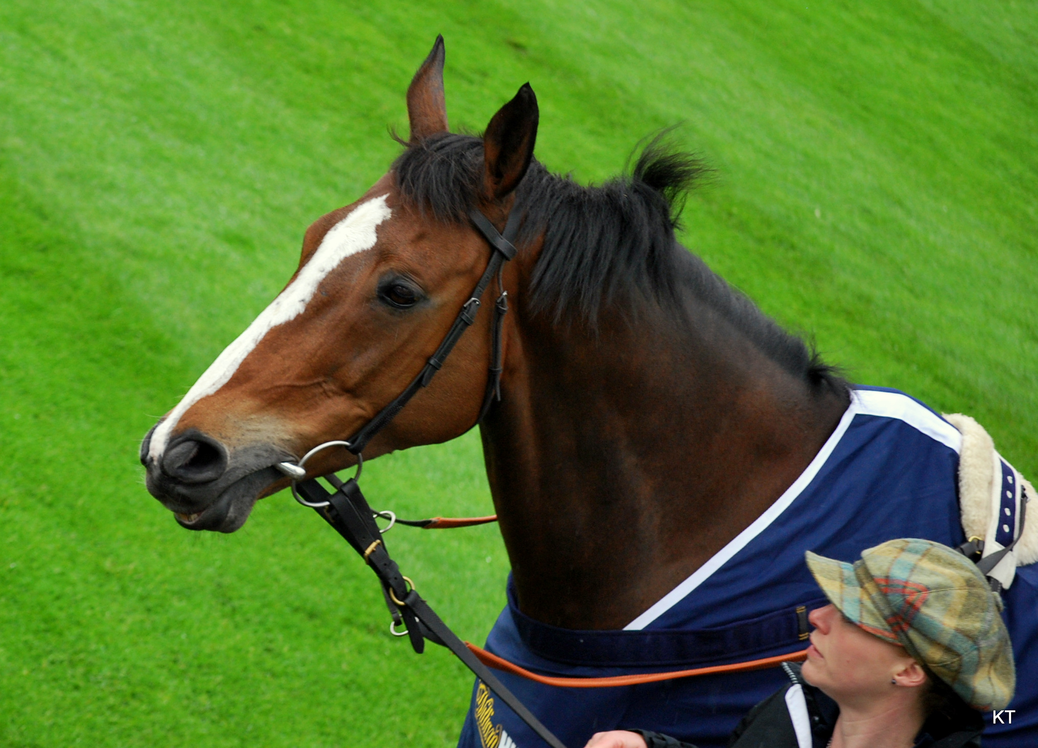 Kauto Star in the Champions Parade at Sandown on bet365 Gold Cup Day, April 28th 2012.